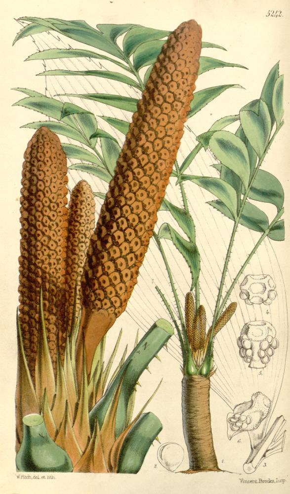 Illustration of Zamia skinneri